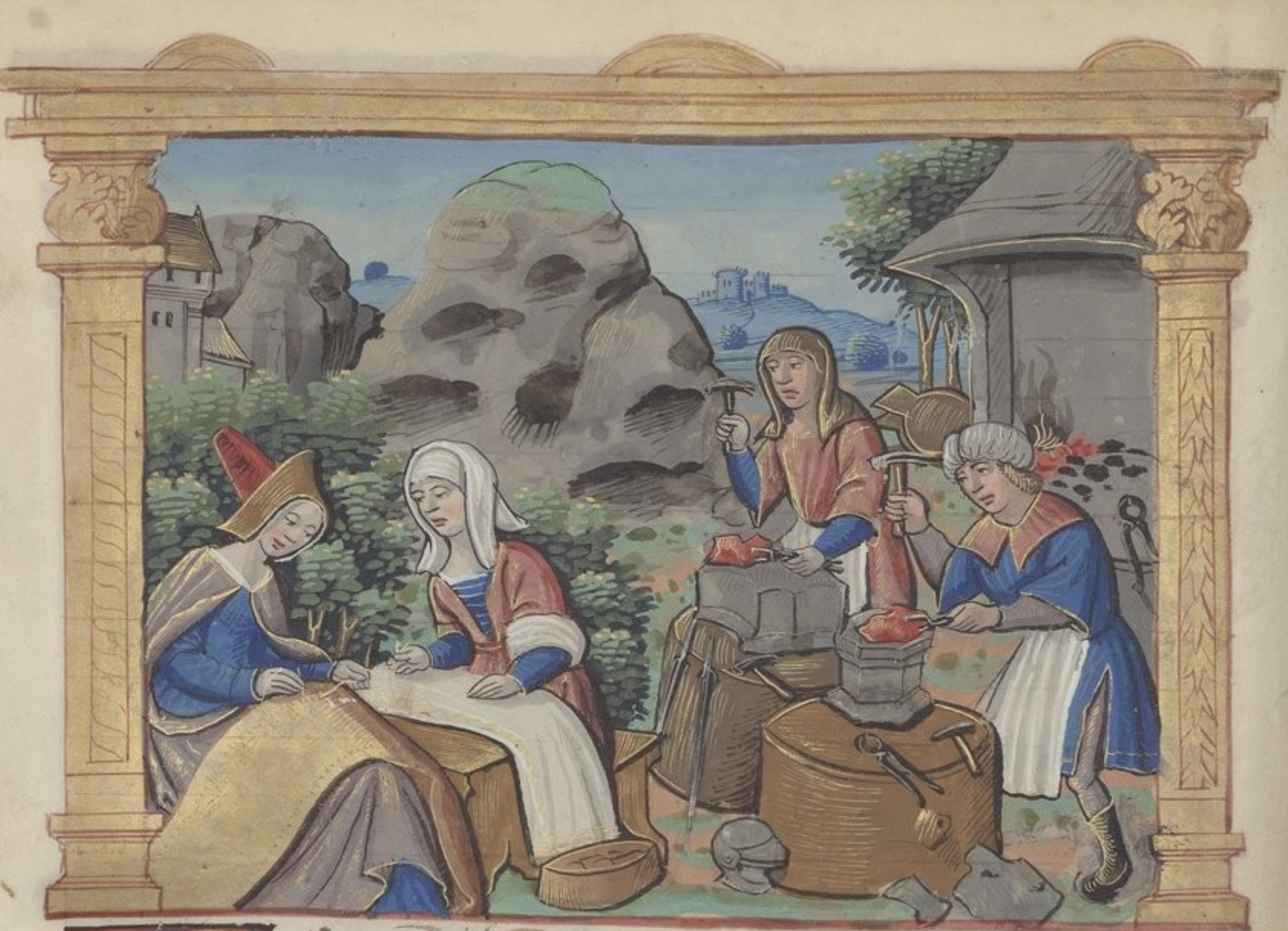 Needle work. Illustration from the Book of Marco Polo (1475-1525)